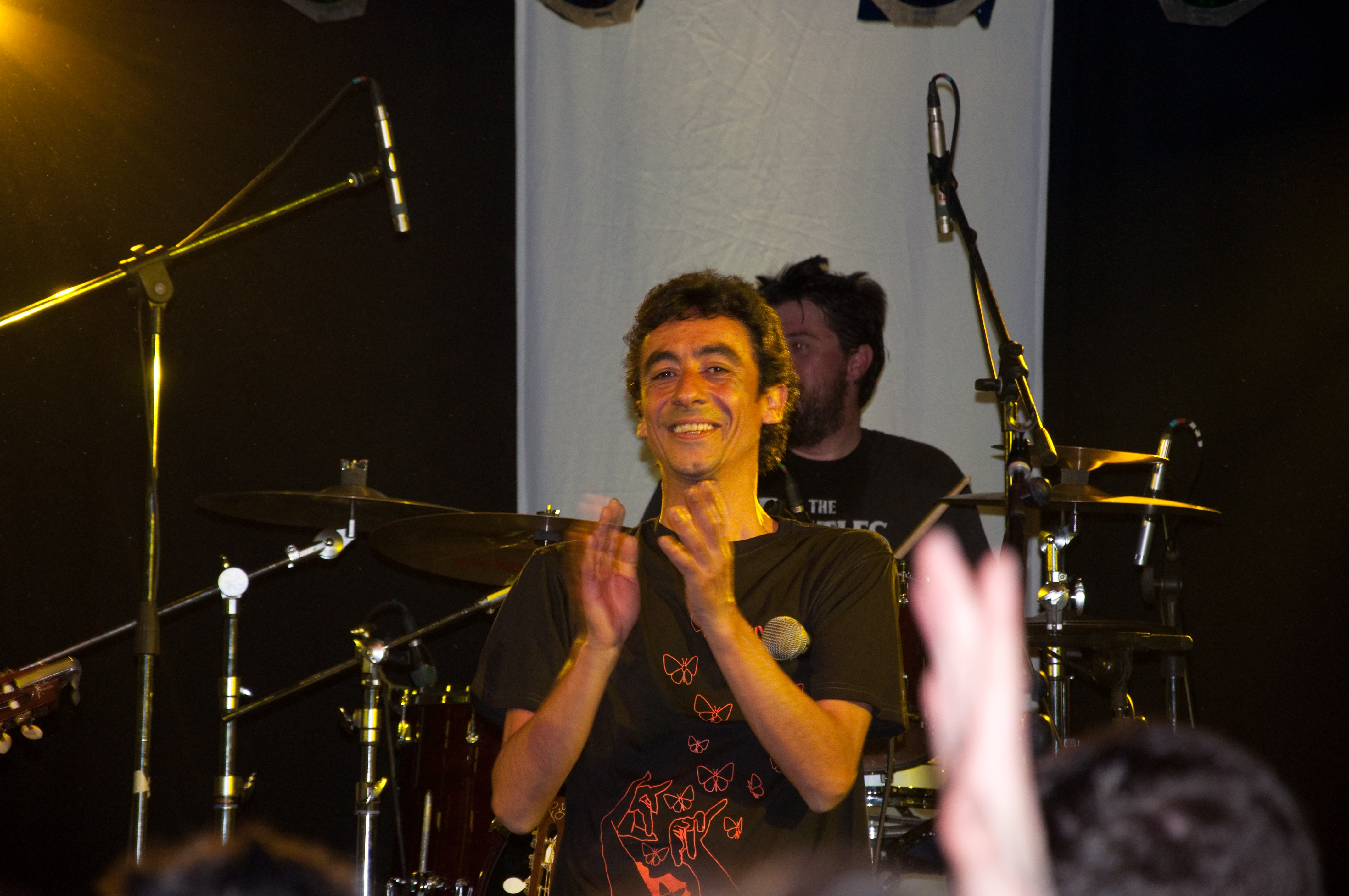 Tomasito in concert. Aulario la Bomba, Cadiz (Andalusia, Spain)